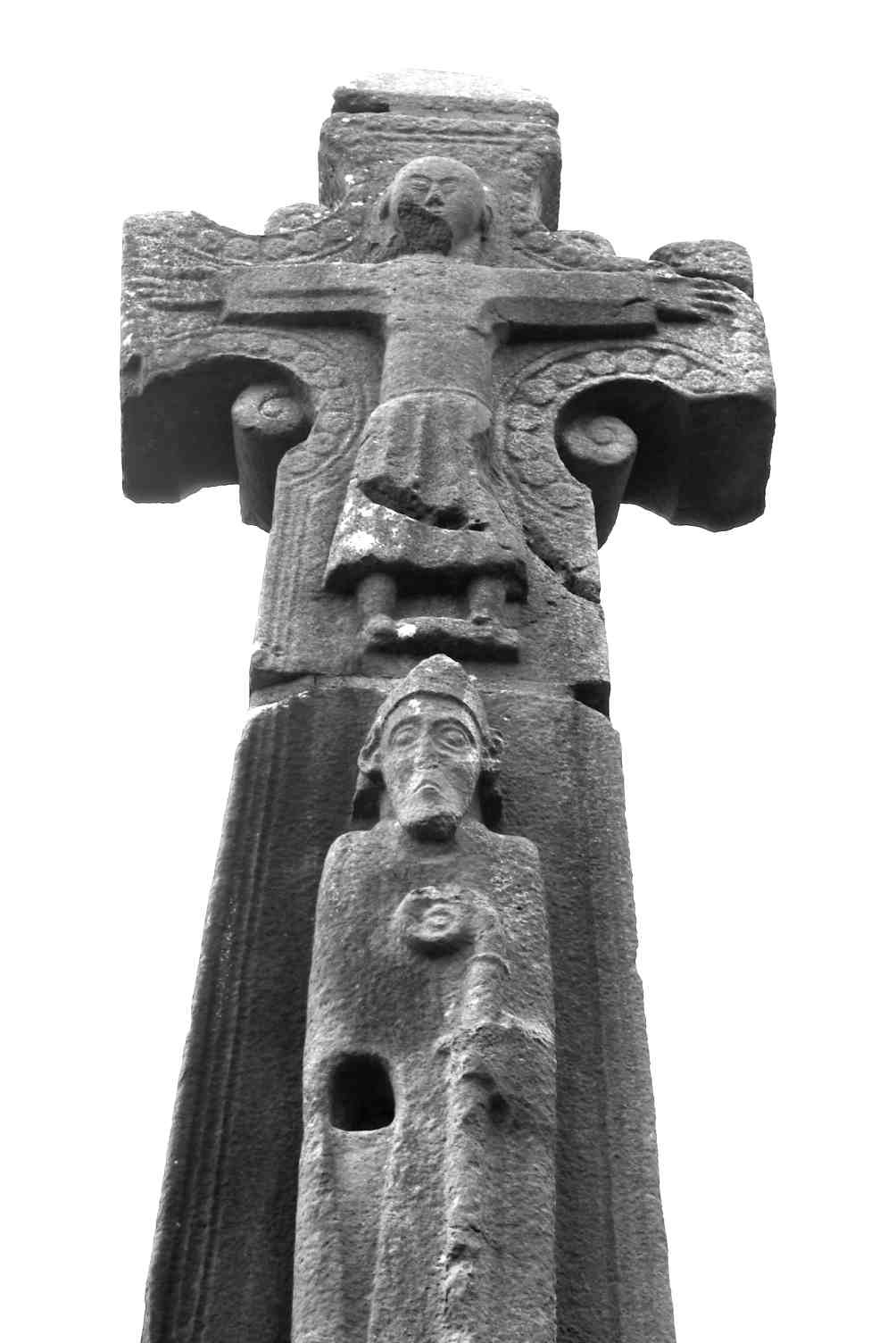 High Cross, Dysert Co. Clare, Ireland Nov. 2005, Danny Burke